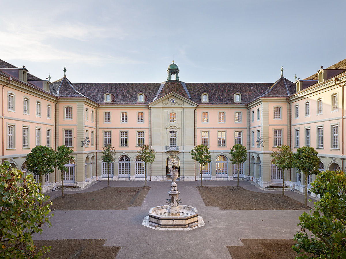 Dokumentation Baustelle, Hoffassade Nord